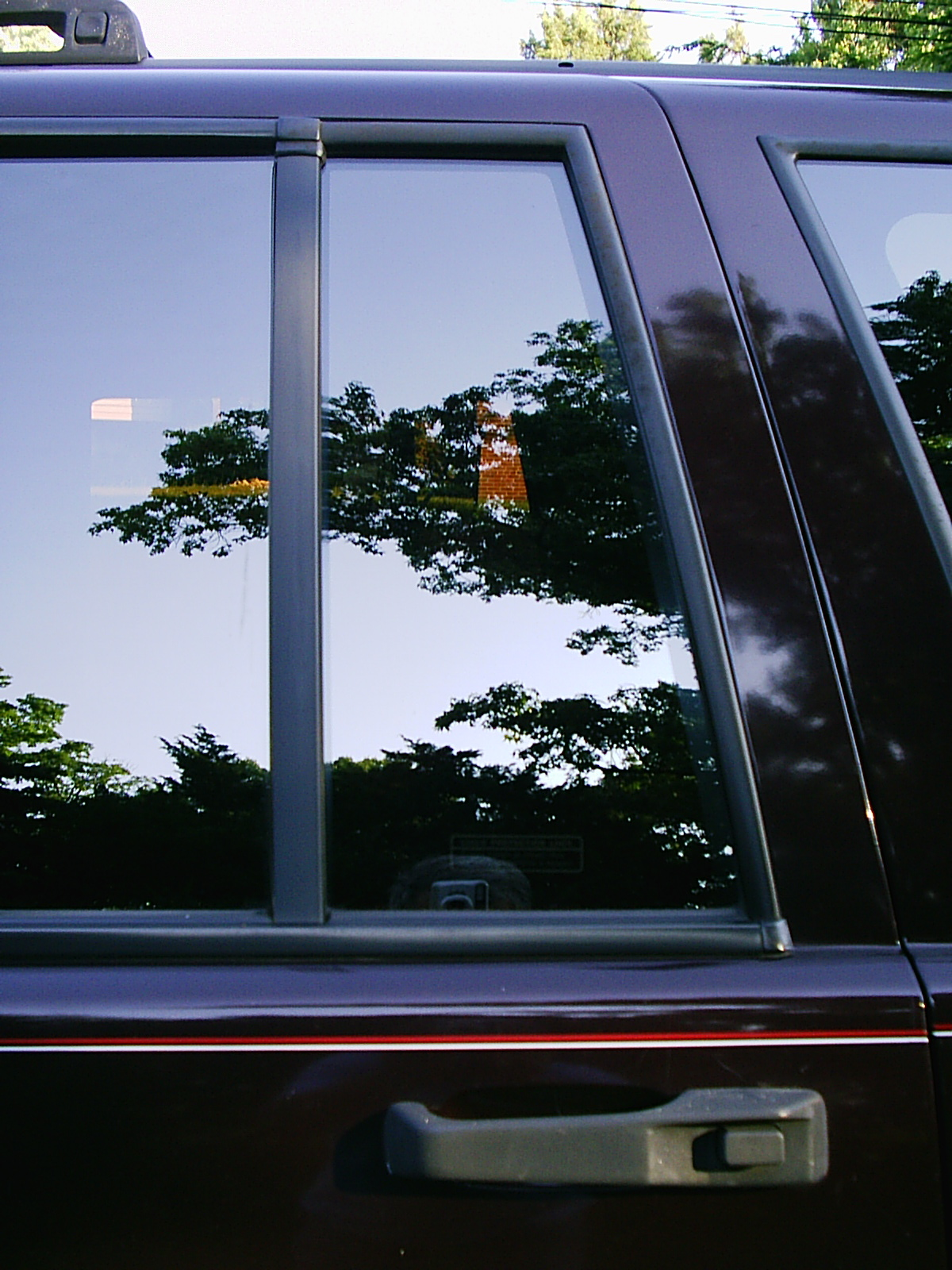 Rear left door quarter window on a 1993 Jeep Grand Cherokee. This luxurious sport utility (SUV) is finished in Metallic Blackberry (paint code: PM9), a deep burgundy. Equipment includes the Laredo 26F package and the Quadra-Trac full-time system. This is an early production ZJ model that was built in April 1992.